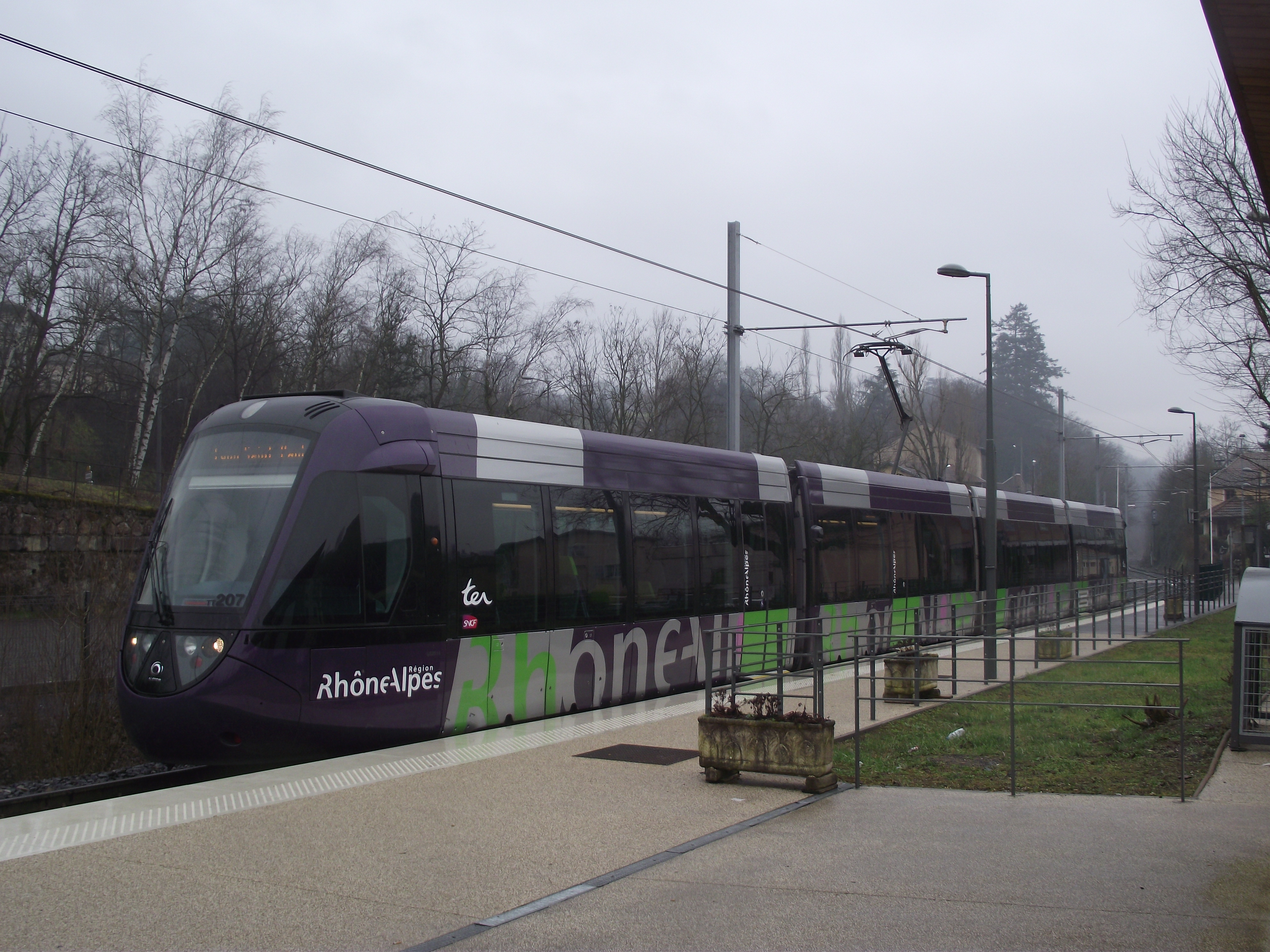 Sain-Bel terminus of the Lyon Tram-train.